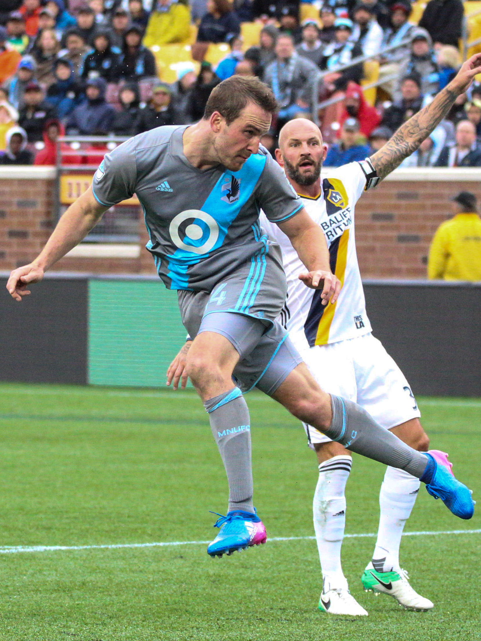 Minnesota United La Galaxy Kallman